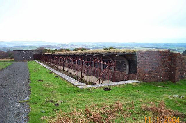 Rippon Tor rifle range. Maybe some will find this slightly odd to find in a National Park. It's the remains of a 2nd World war target raising machine. It's part of a surprisingly extensive disused rifle range.